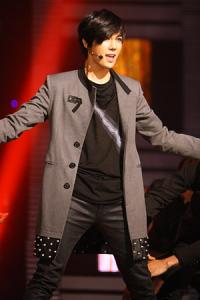 Park Jung-min performing "Not Alone" on Mnet 'M Countdown', 2011